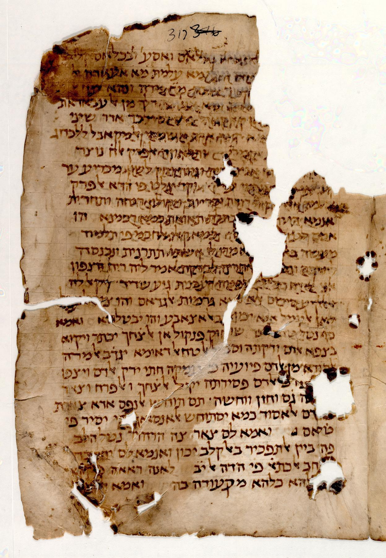 This is an image of fol. 1r from University of Pennsylvania Center for Advanced Judaic Studies Library Halper 317, Philological essay (Orient, 0900 - 1199).